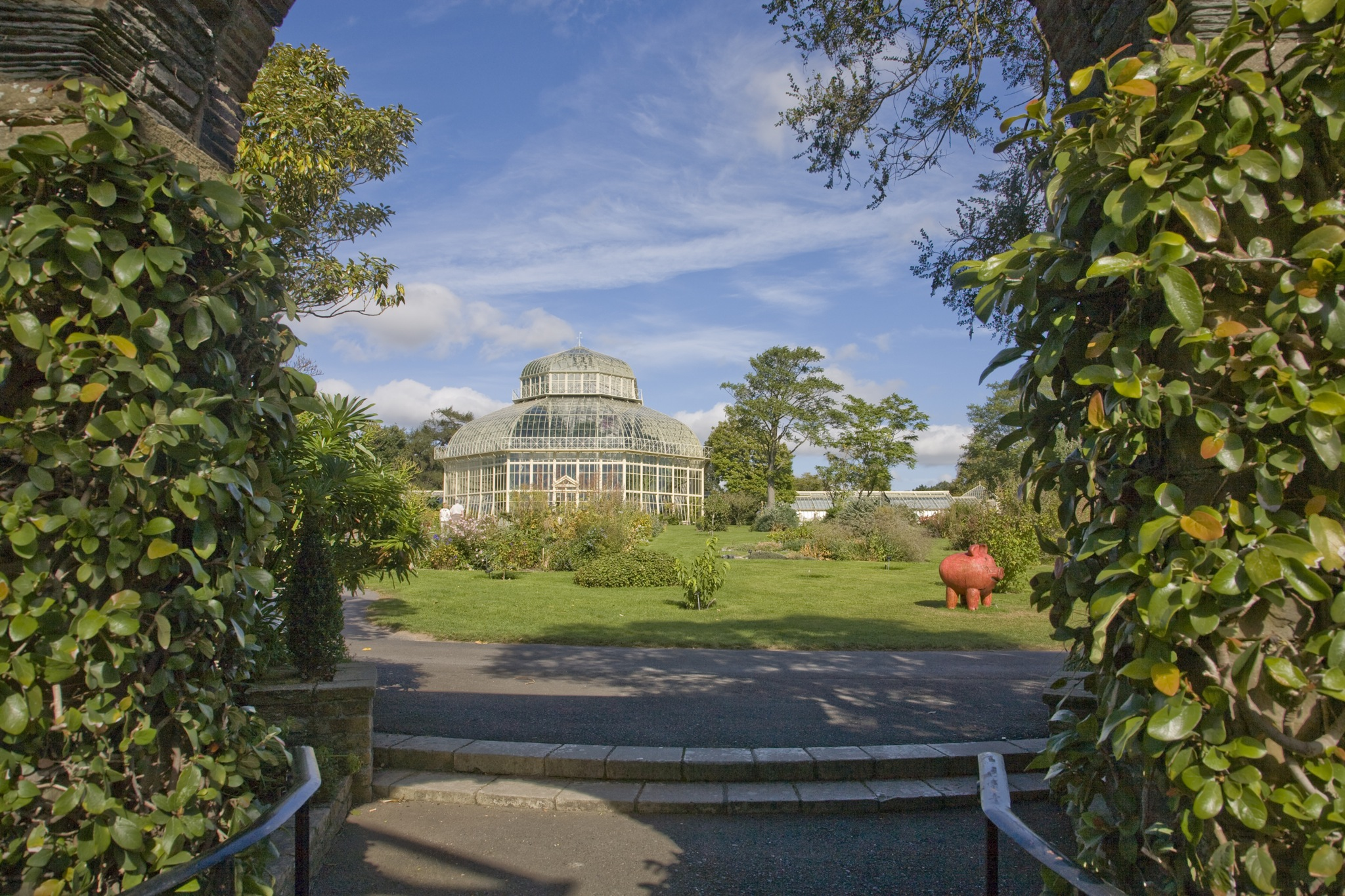 Irish National Botanic Gardens, Glasnevin, Dublin, Ireland.